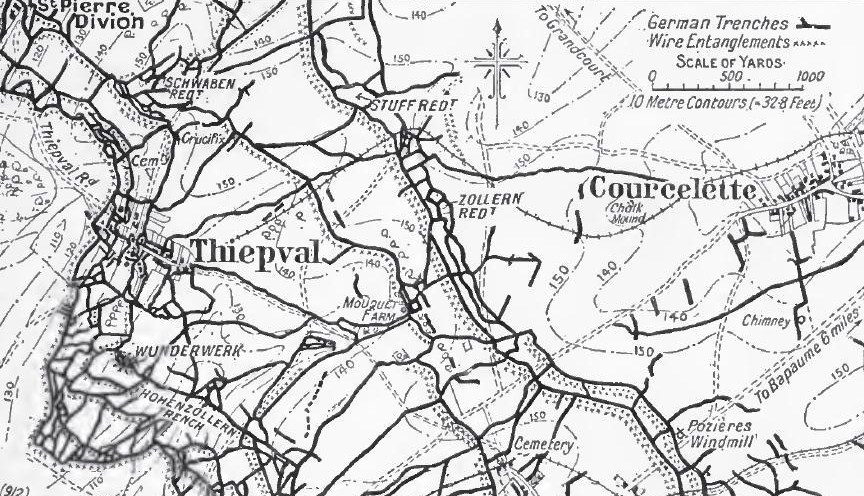 Map of German defences around Thiepval, July 1916 (Interweb search for author failed to identify draughtsman)